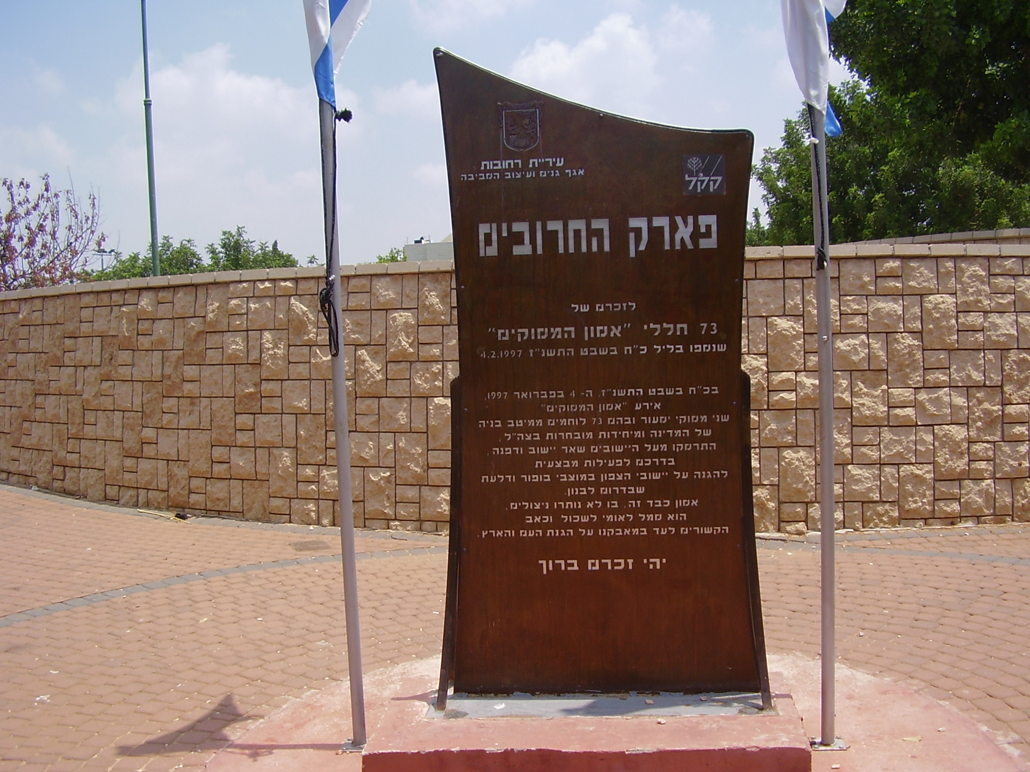 1997 helicopter disaster memorial in carob park, rehovot